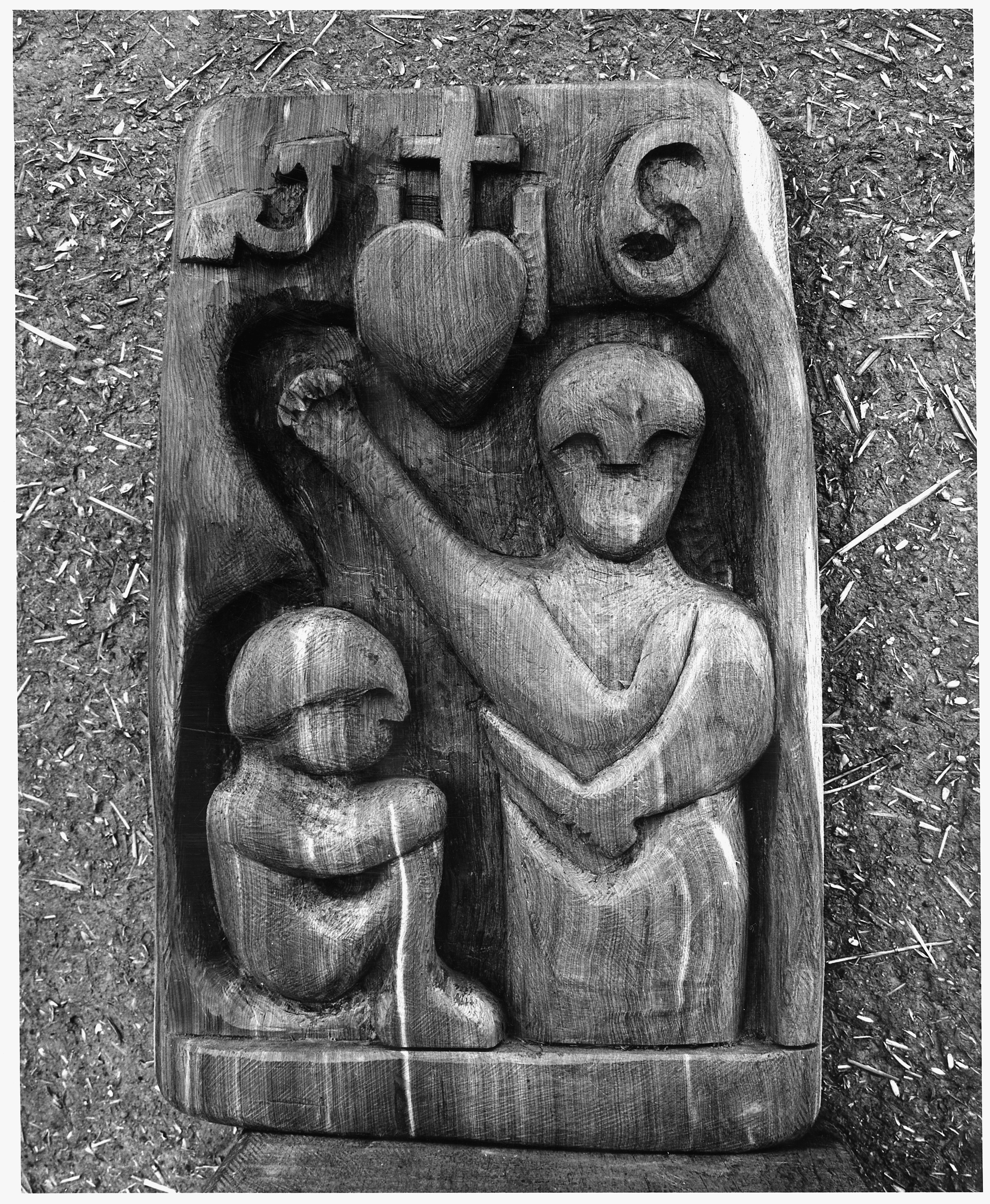 Scope and content: Full caption reads as follows: Taos County, New Mexico. Wood carvings of Patrocina Barela.